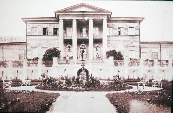 Yazykovo Manor House (built 1827, destroyed 1922)